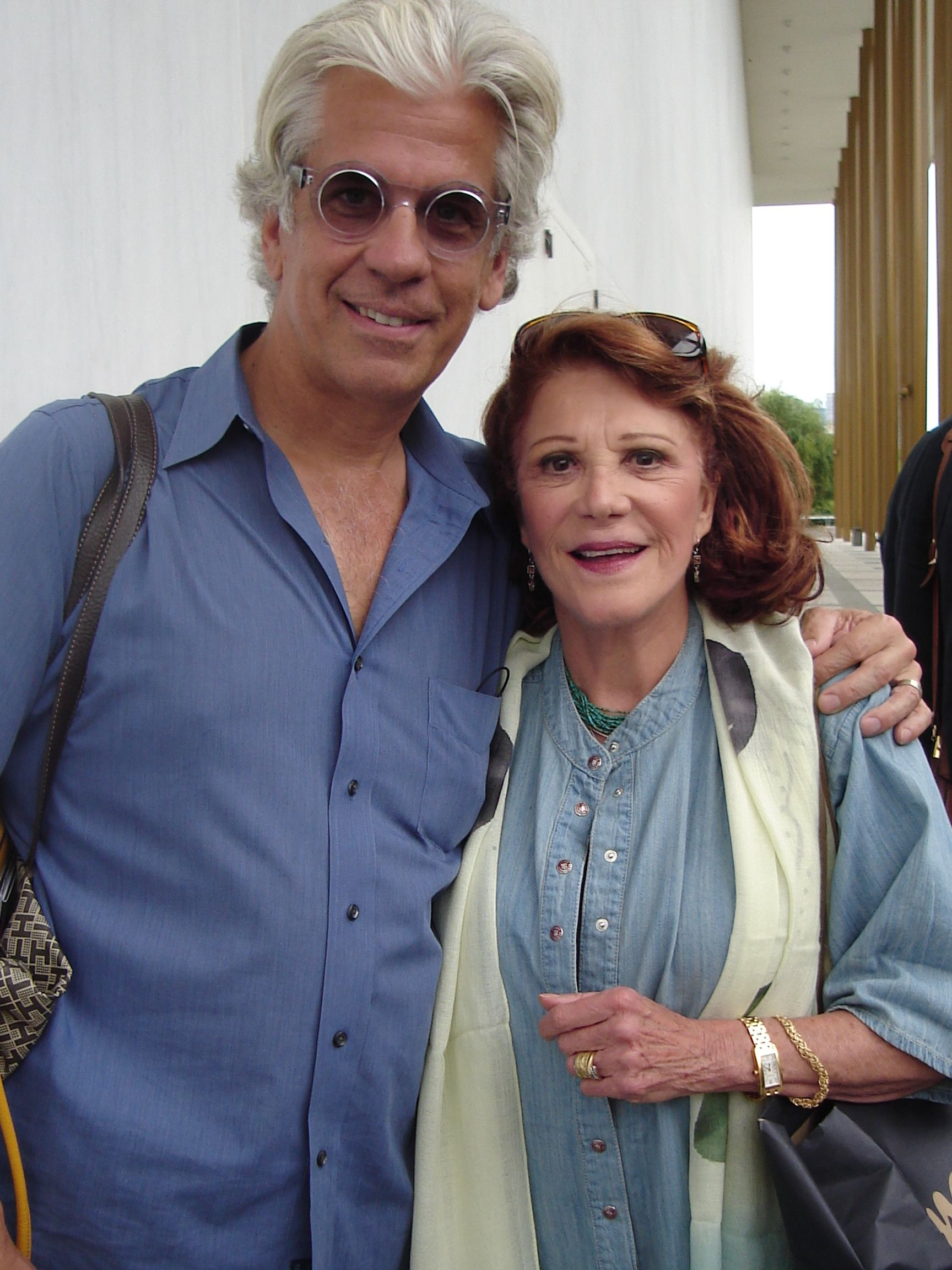 Linda Lavin and husband Steve Bakunas at Kennedy Center, June 19, 2011.